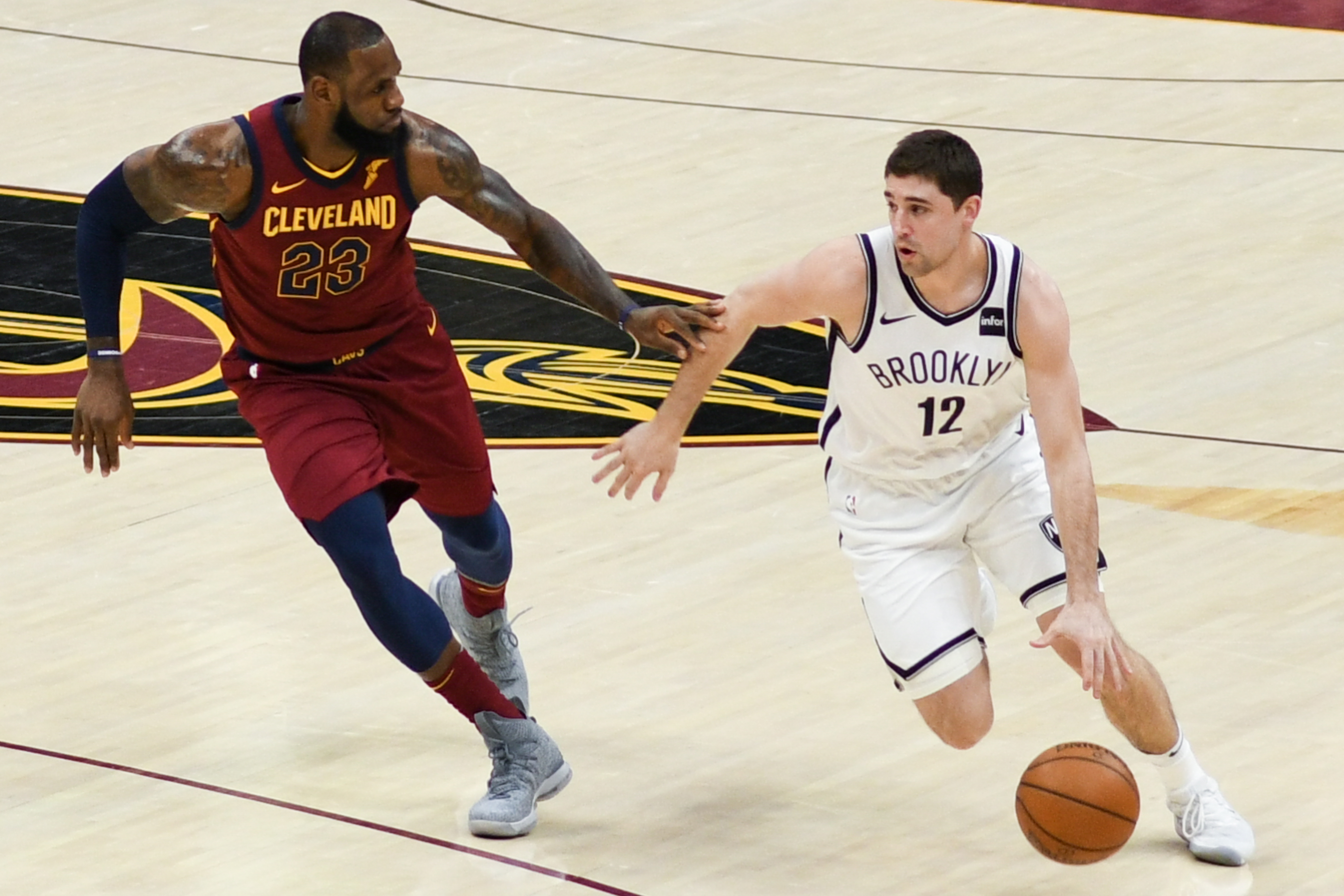 LeBron James defending